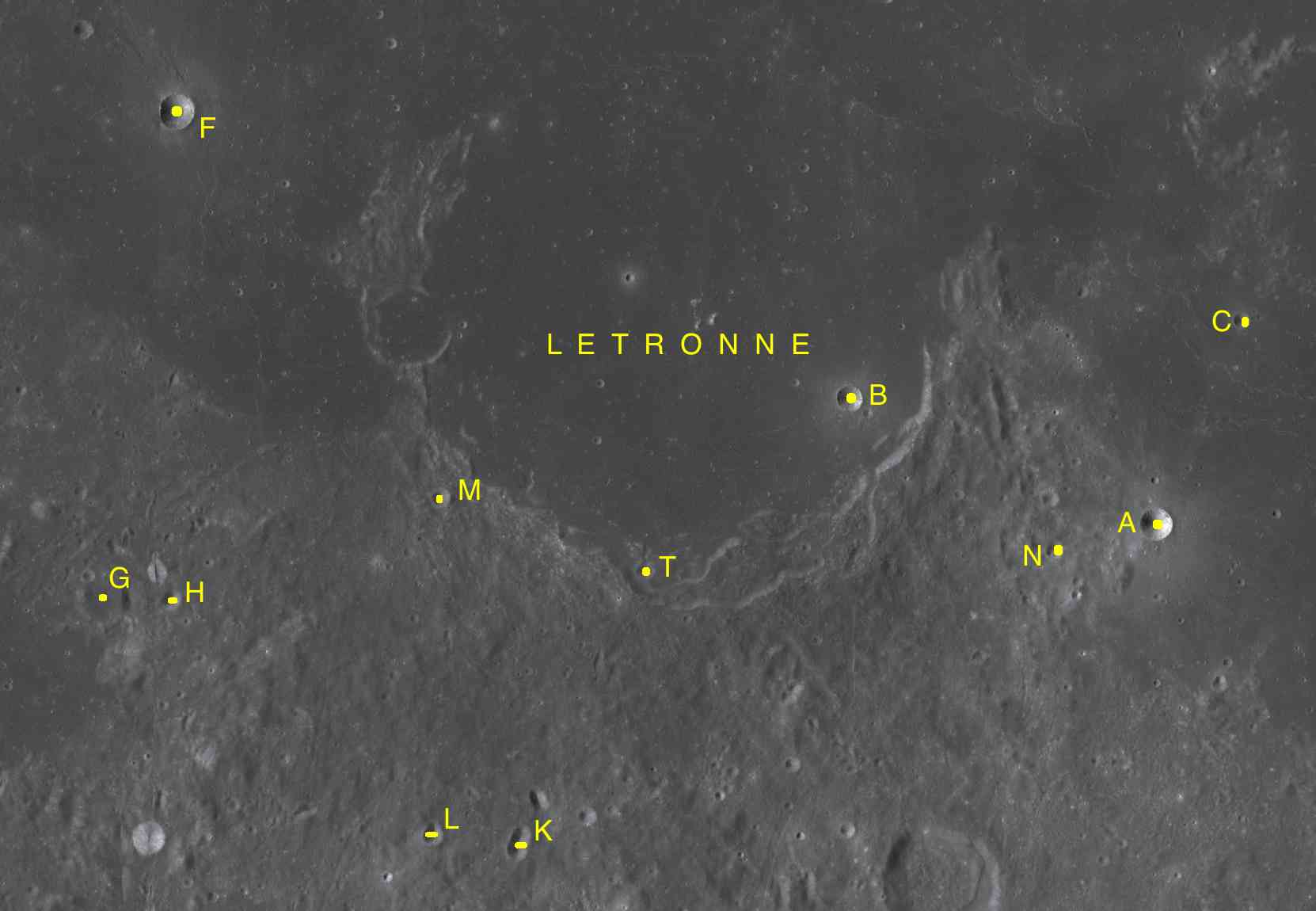 Part of the chart LAC-75 used for the presentation